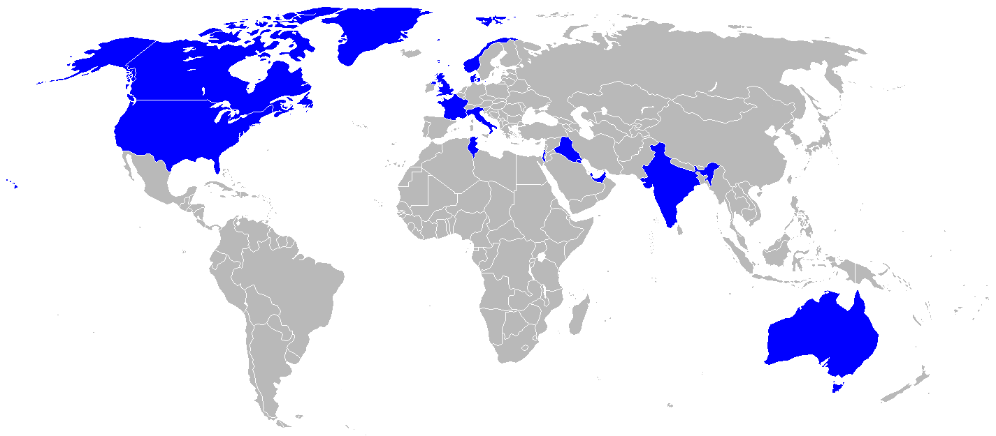 Map of countries which operate the C-130J Hercules aircraft, coloured blue.